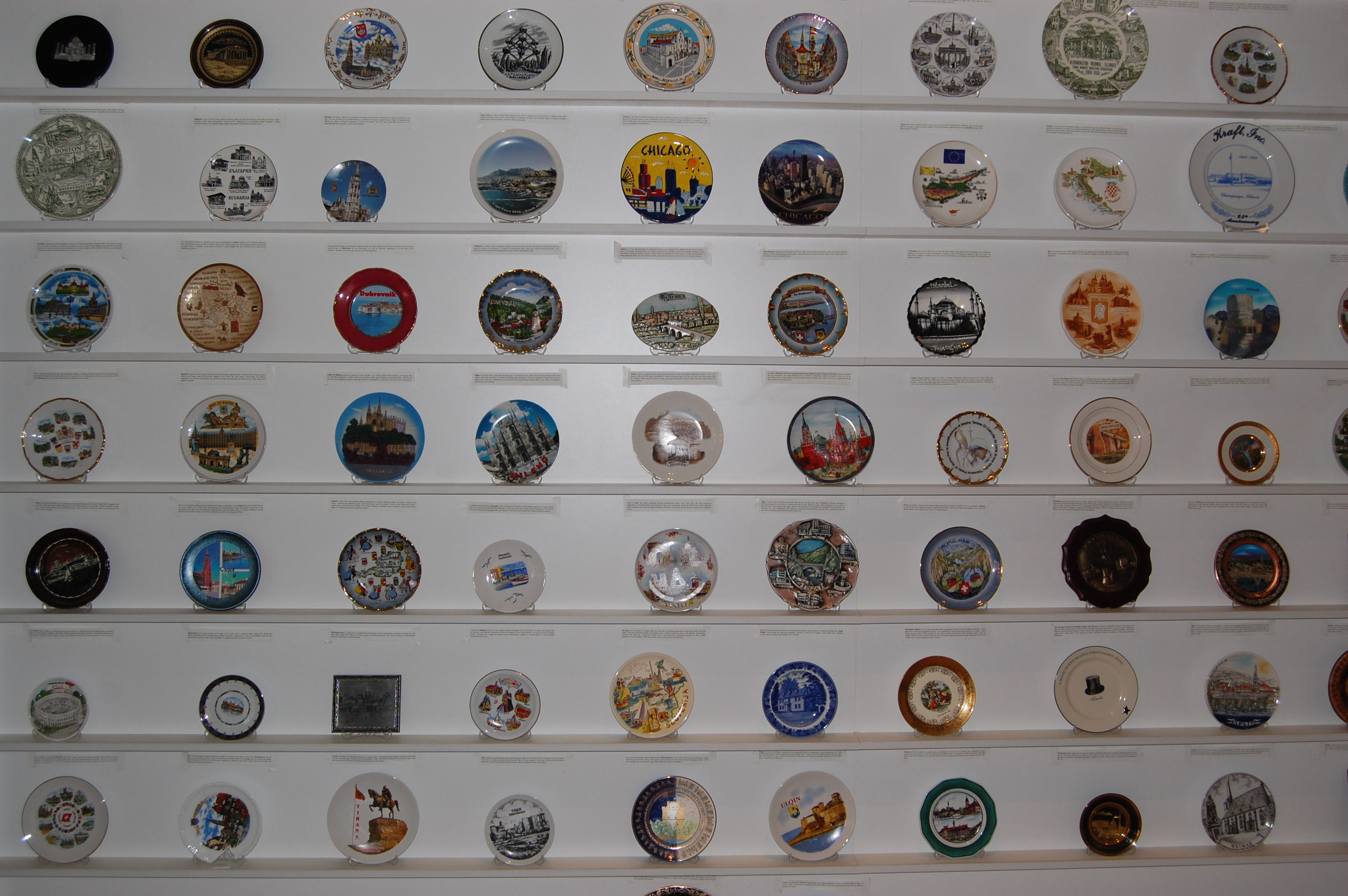 A collection of souvenir plates from cities around the world, displayed in the foyer of theHotel Sirius, Pristina, Kosovo.